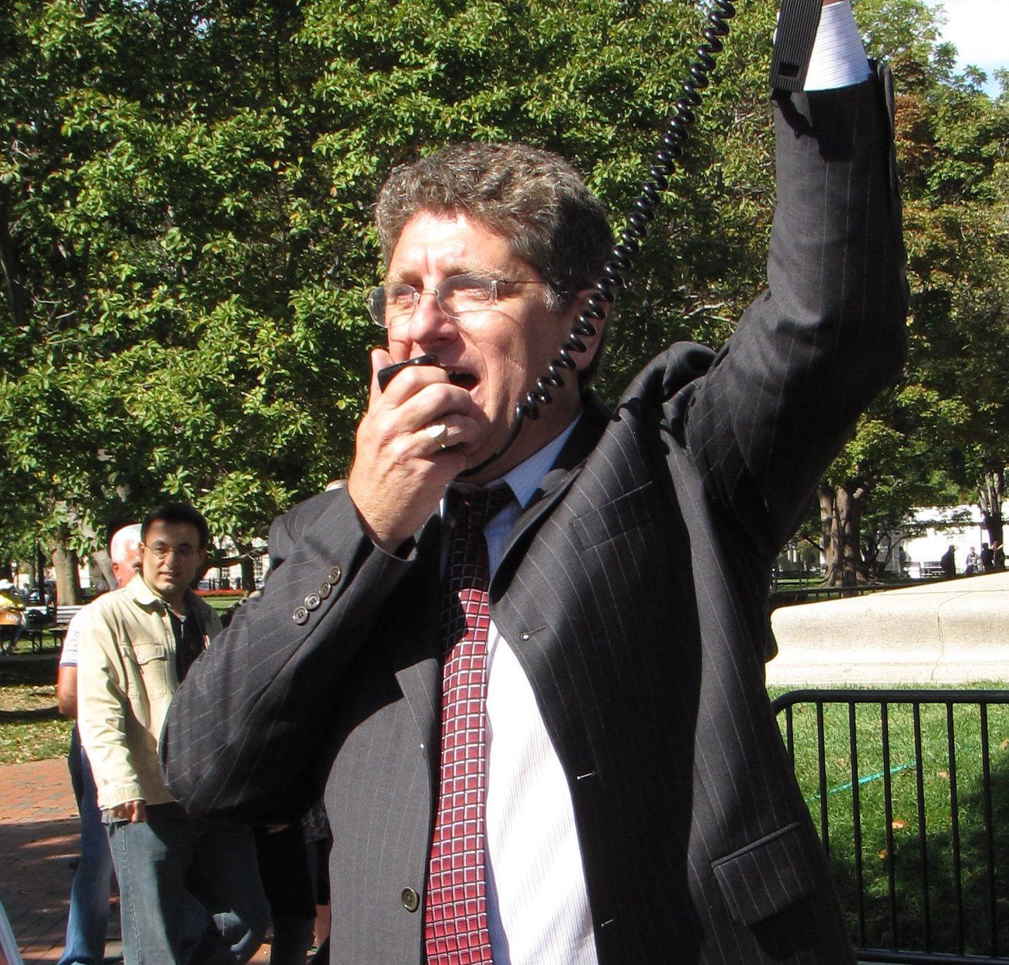 Randall Terry, counter-protesting at the National Equality March in Washington DC.